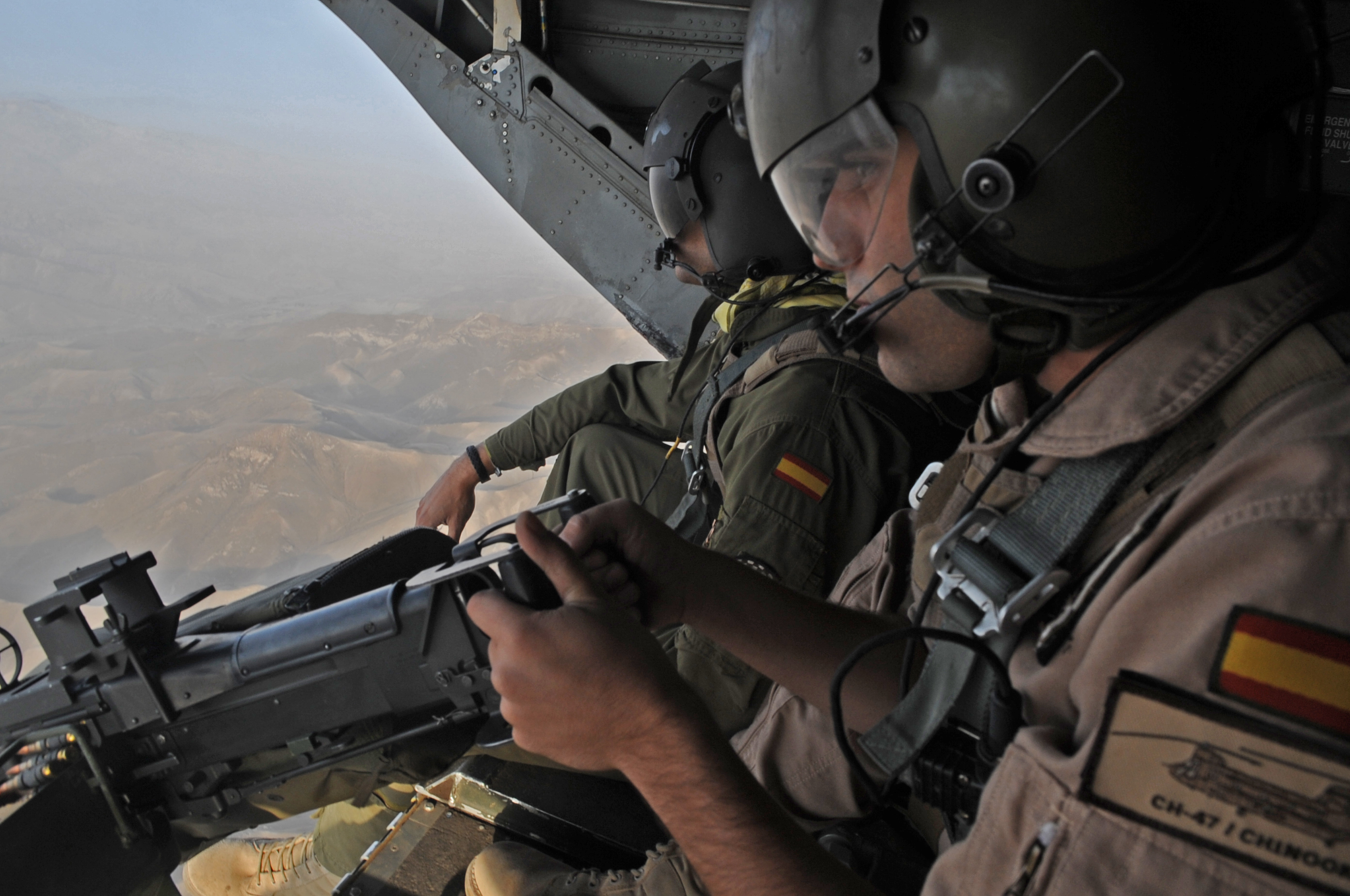 HERAT, Afghanistan--The two members of a Spanish Army CH-47 Chinook Helicopter crew take in the view of western Afghanistan during an International Security Assistance Force (ISAF) mission, Sept. 27, 2008. ISAF is assisting the Afghan government in extending and exercising its authority and influence across the country, creating the conditions for stabilization and reconstruction. (ISAF photo by U.S. Air Force TSgt Laura K. Smith)(released)